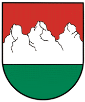 Coat of arms of Riemenstalden, Canton Schwyz, Switzerland